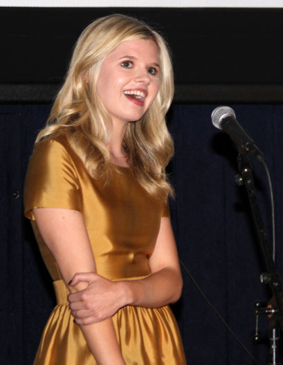 Ana Mulvoy-Ten and writer/director Marya Cohn during the Q&A for "The Girl in the Book"